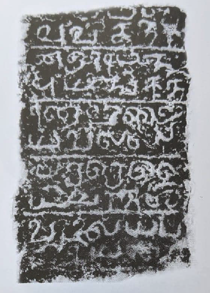 Fragmentary inscription from Anuradhapura museum